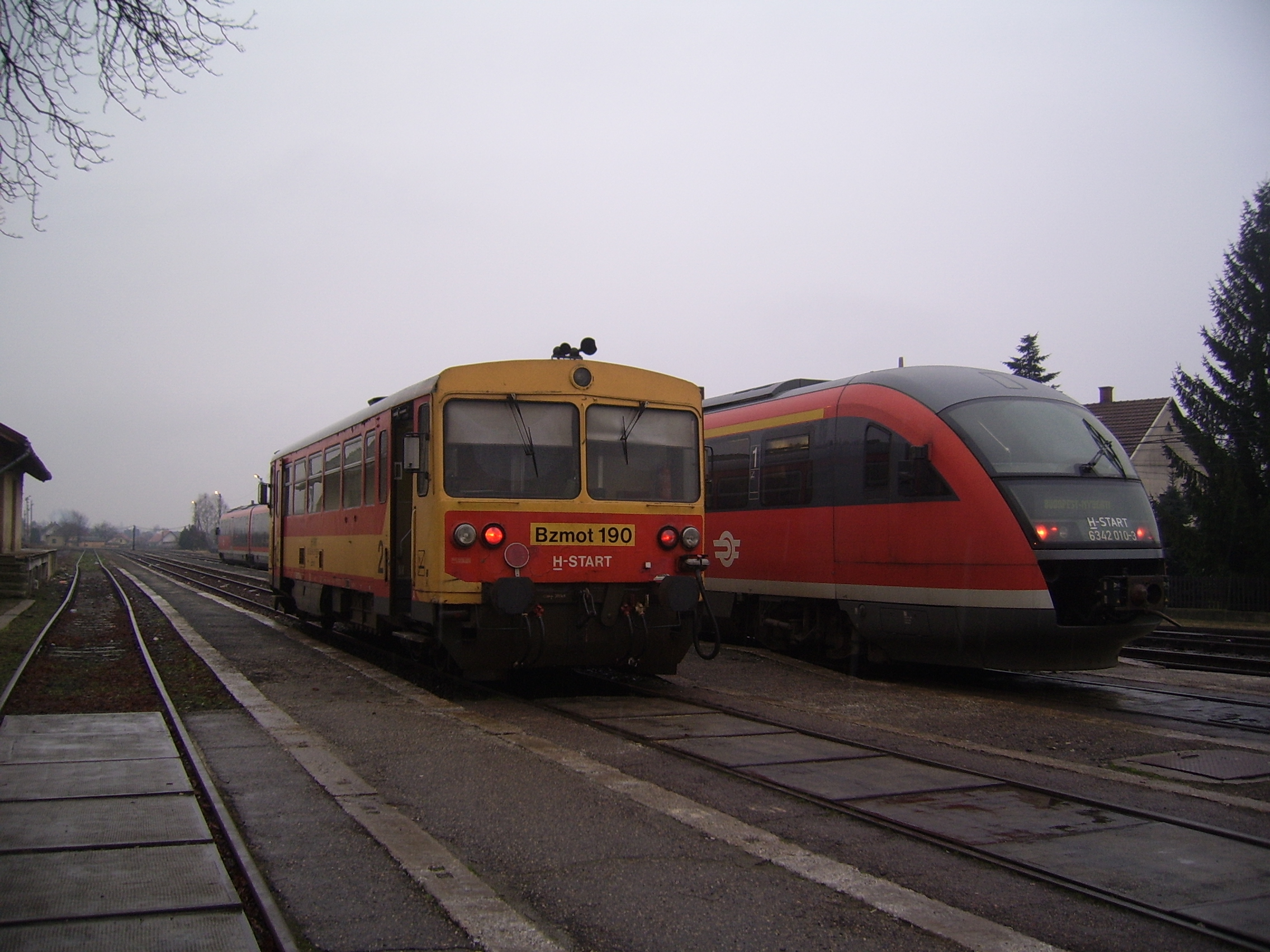 Trains of the Budapest–Lajosmizse–Kecskemét railway line in Lajosmizse. The Desiro (right side) coming from Budapest, the Bzmot (left side) is part of the Kecskemét suburban traffic.